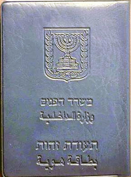 An example of Teudat-Zehut